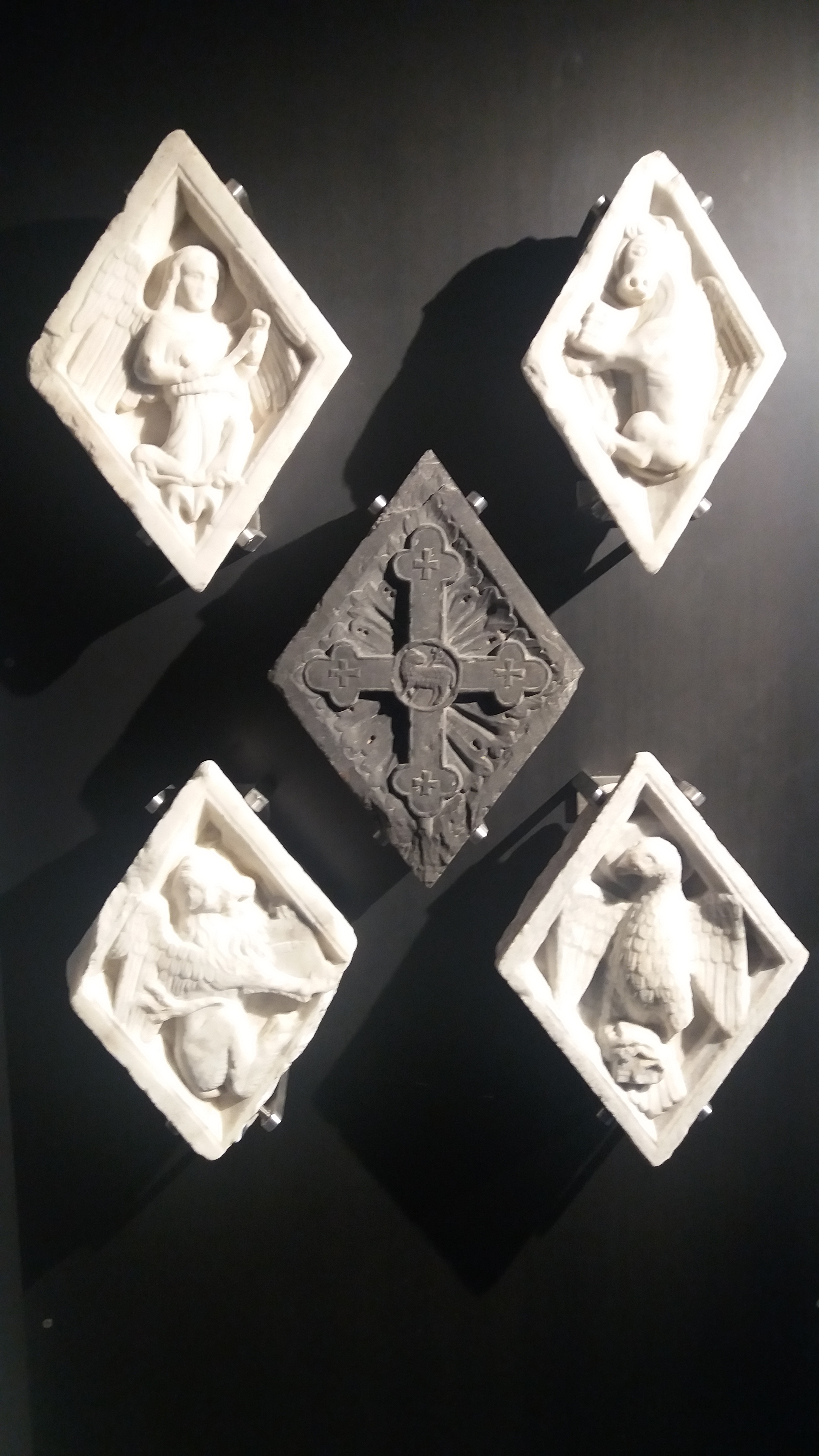 Fragments of the demolished Church of San Francesco in Castelletto. (The four evangelists)